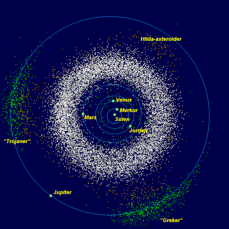 Norwegian language version of File:InnerSolarSystem.png